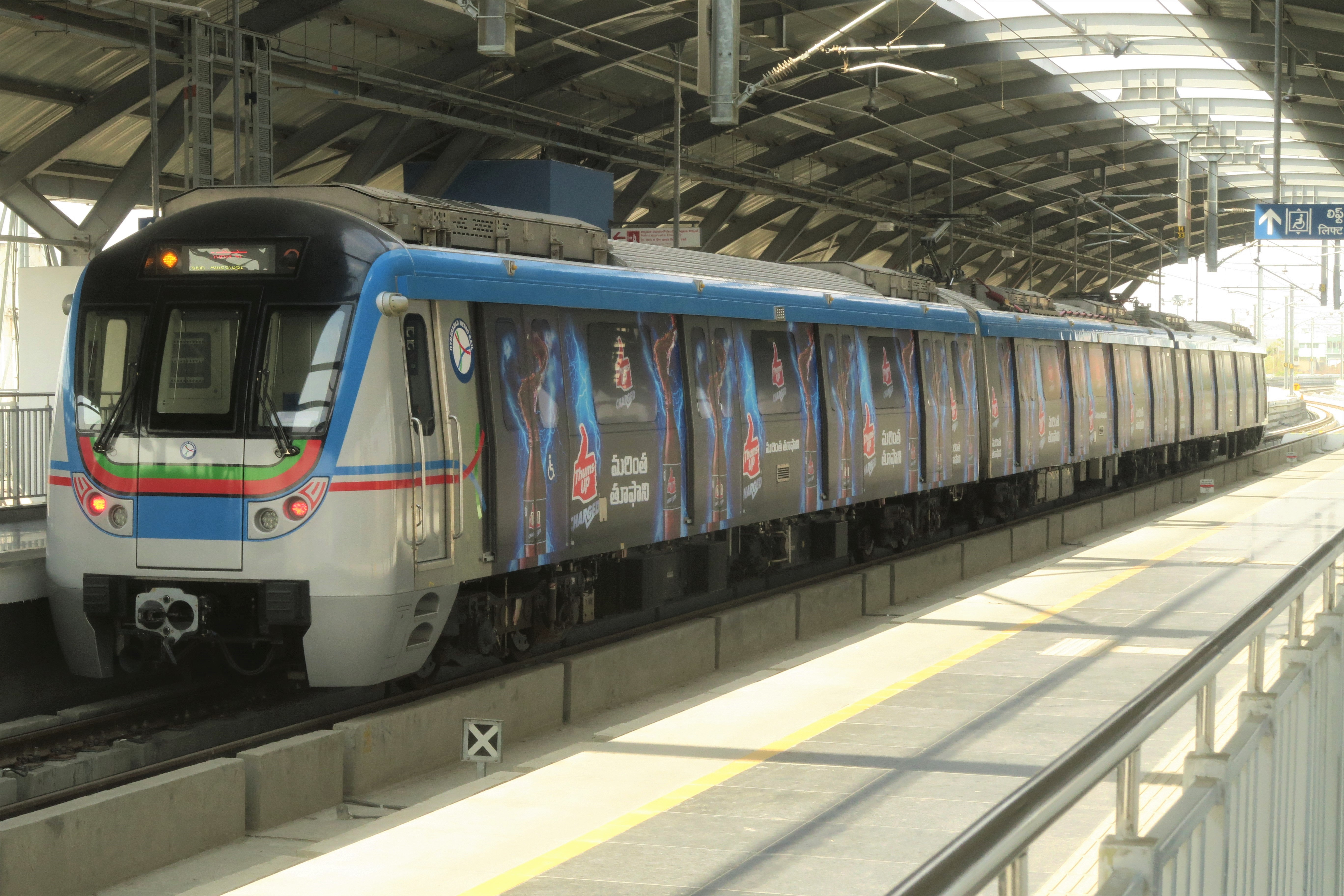 Fleets of Hyderabad Metro.